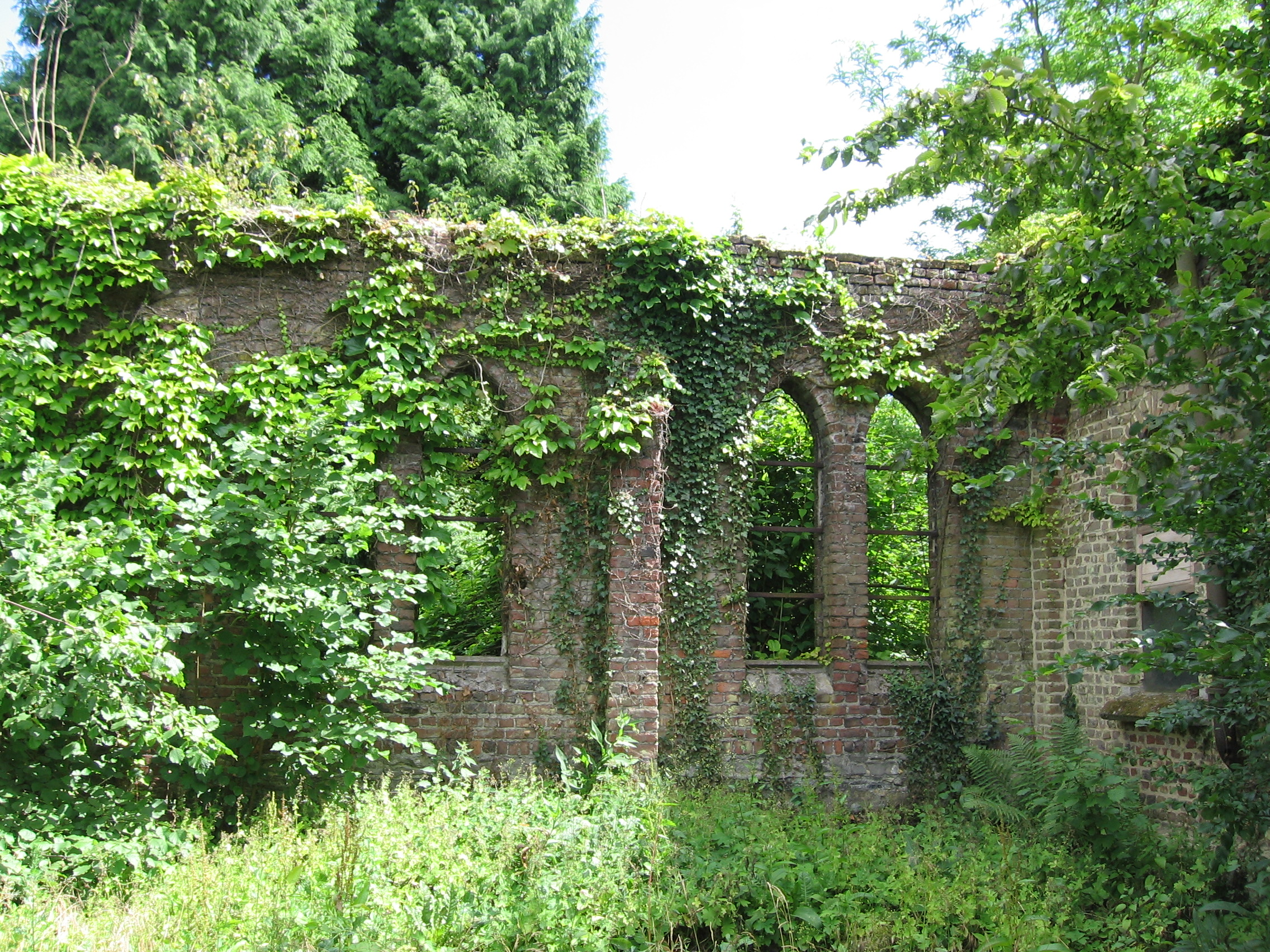 Ruins of LeSaulchoir abbey, near Tournai (Belgium)